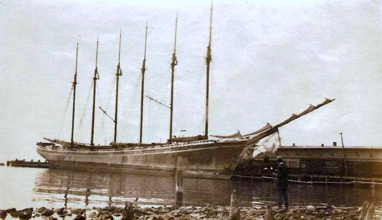 Schooner Wyoming. On Verso Schooner "Wyoming" of New York, the largest schooner in the World at the L & H Docks, Pensacola. 93 days from Africa with mahogany. Will now load lumber and turpentine, etc. for France.